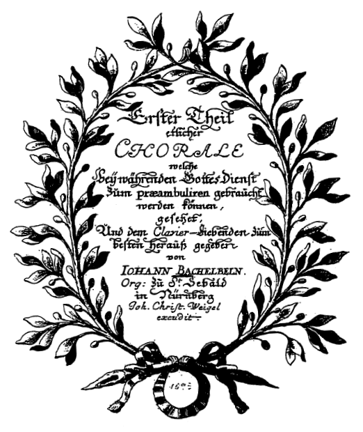 Facsimile of the frontispiece of Erster Theil etlicher Choräle, an organ music collection by Johann Pachelbel (1653-1706). The collection was published before 1693.